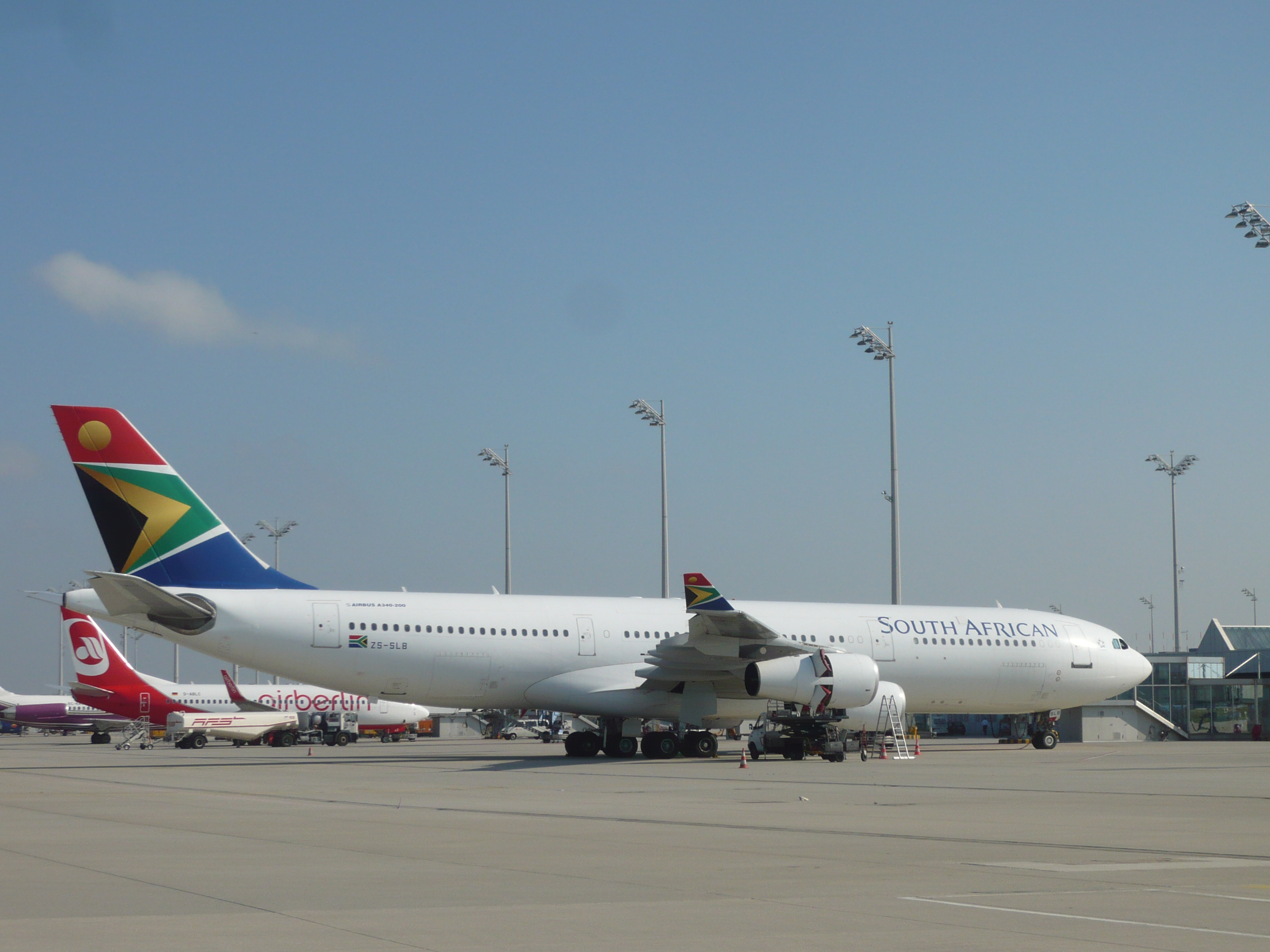 A South African Airways Airbus A340-200 in Terminal 1 of Munich Airport